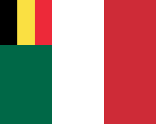 Flag of the Belgian Legion in the French intervention in Mexico in the 1860s. Adapted from published image (